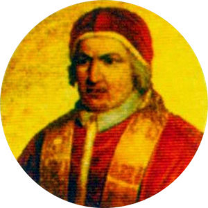 Portait of Pope Benedict XIV in the Basilica of Saint Paul Outside the Walls, Rome